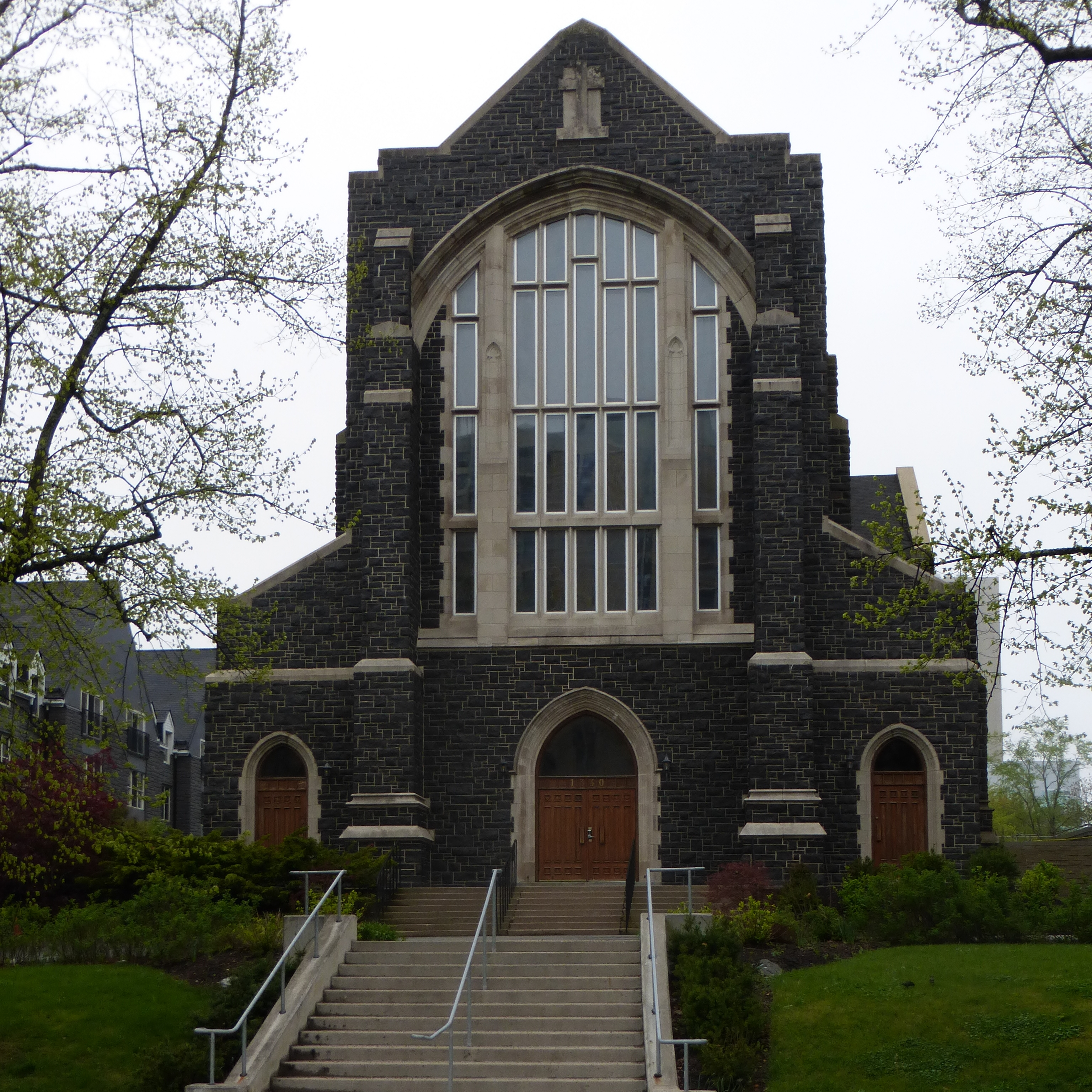 All Saints Anglican Cathedral, Halifax NS Canada